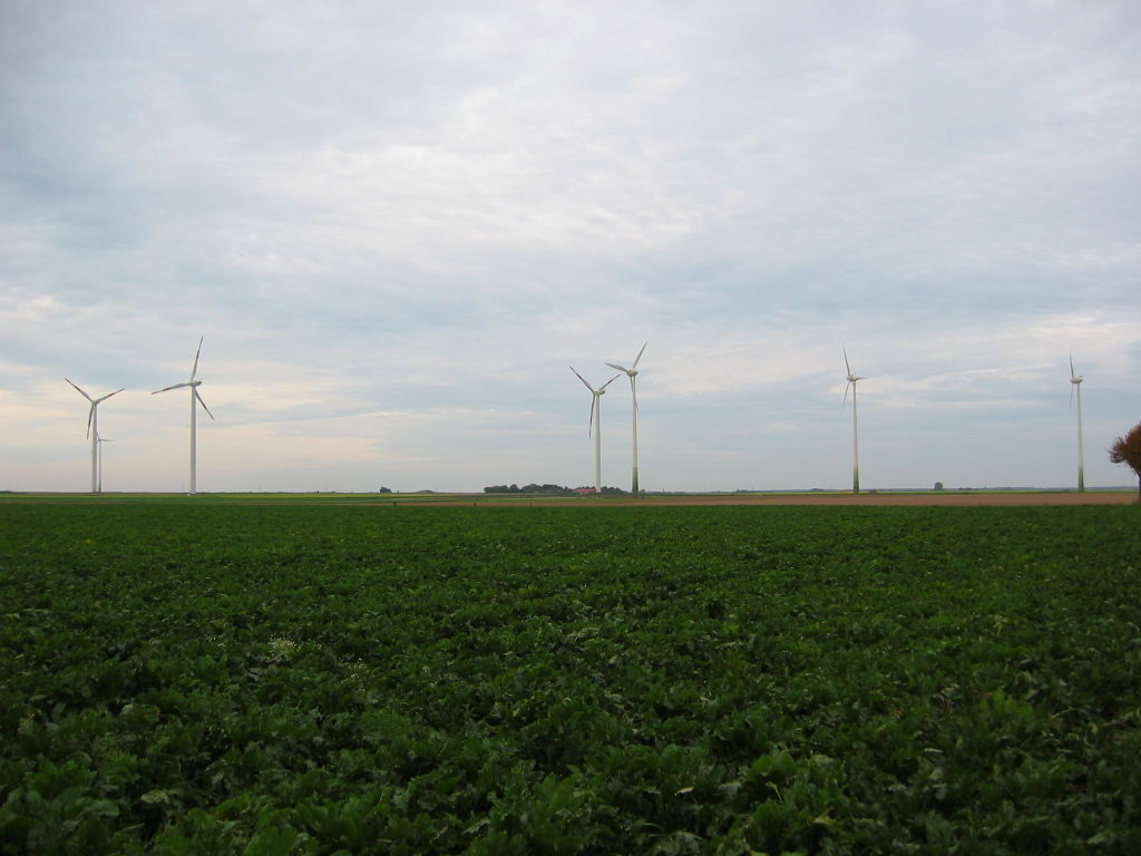 a sugar beet field near Linnich, Germany